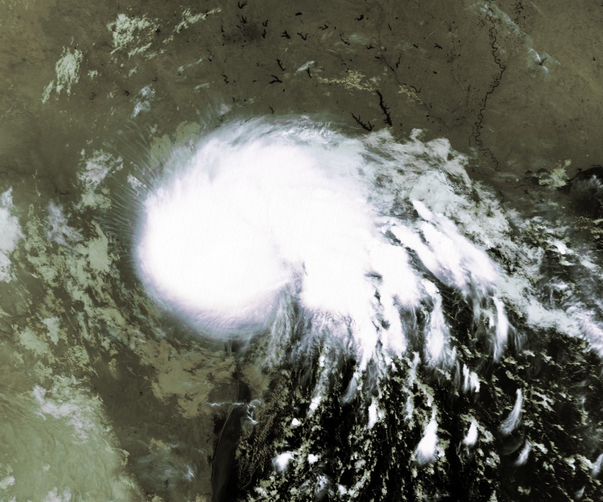 This false-color thermal infrared image shows Tropical Storm Charley just prior to landfall on August 22 at 0925 UTC. Maximum sustained winds were 45 miles per hour and the minimum central pressure was 1000 mb. This image was produced from data from NOAA-14, provided by NOAA.